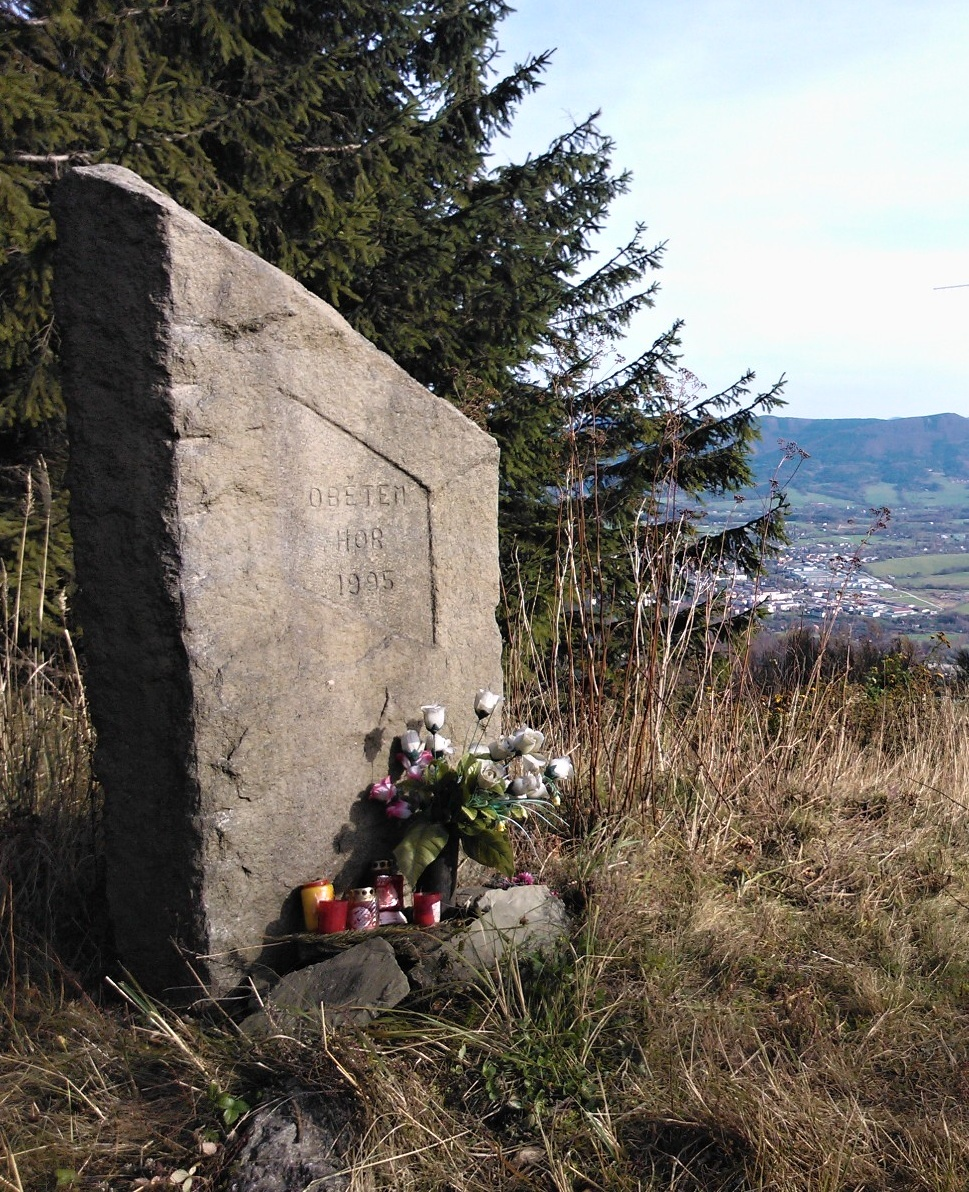 Velky Javornik - Memorial Stone to people that died in the mountains